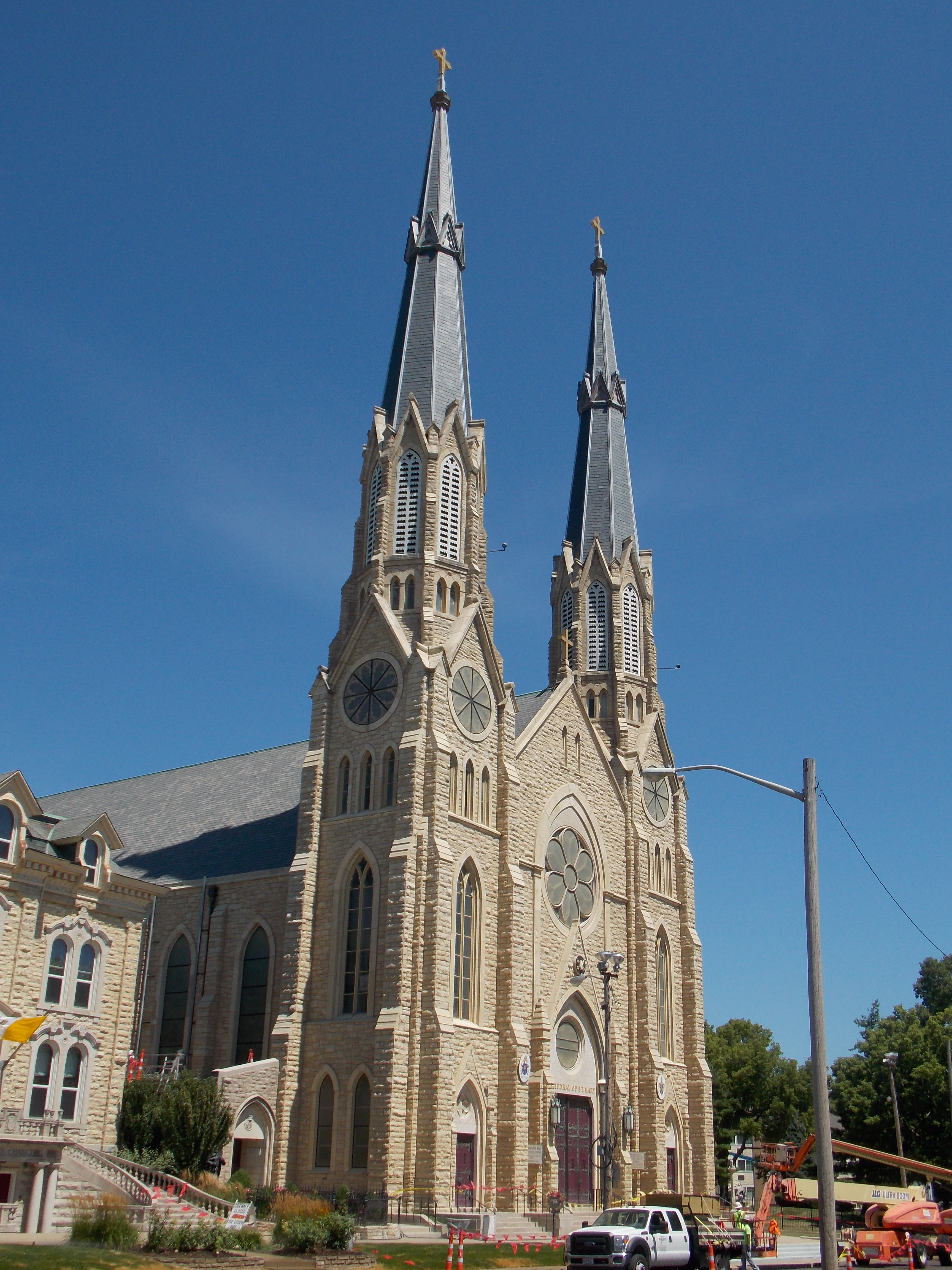 Cathedral of St. Mary of the Immaculate Conception in Peoria, Illinois